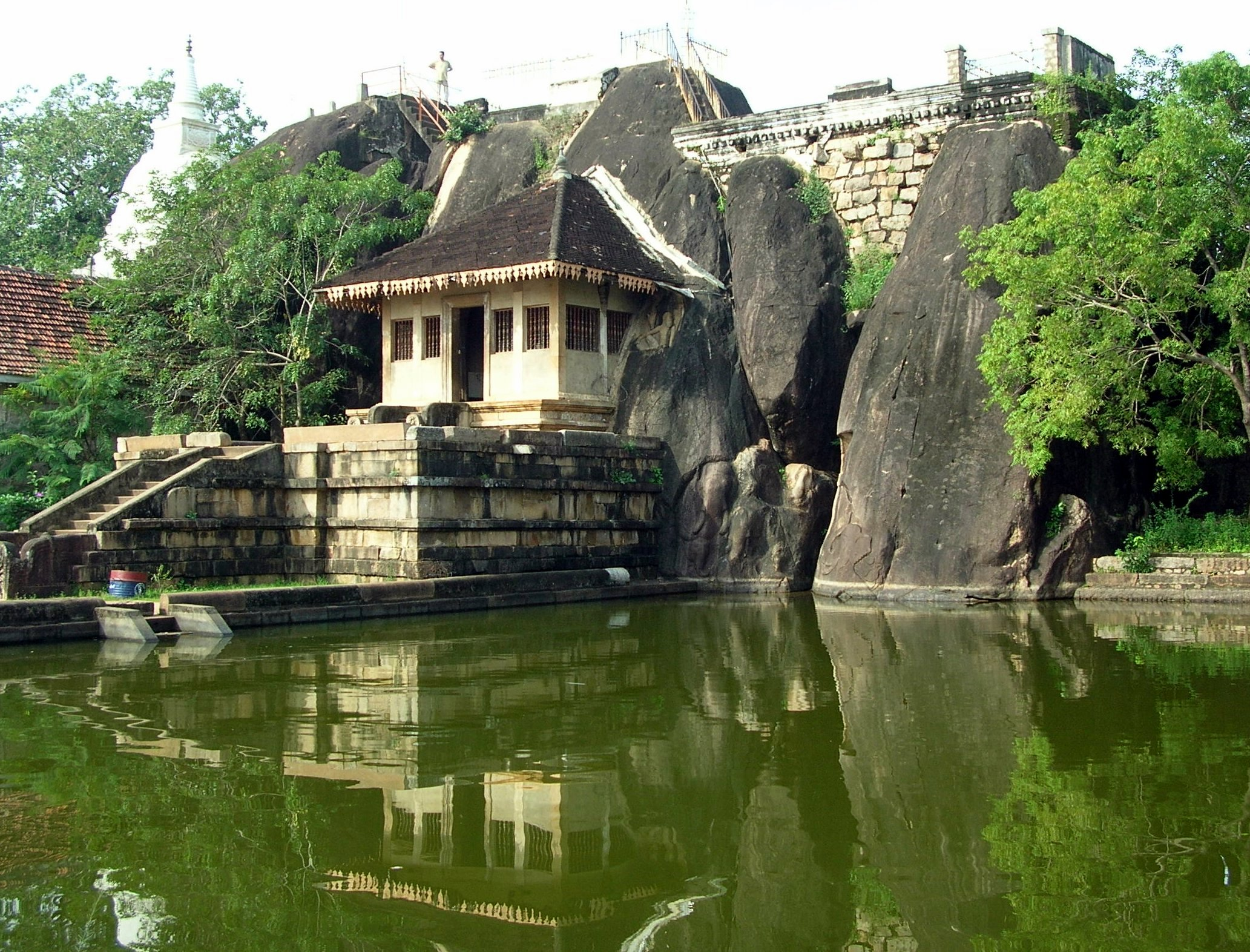 Isurumuniya temple, Anuradhapura, Sri Lanka